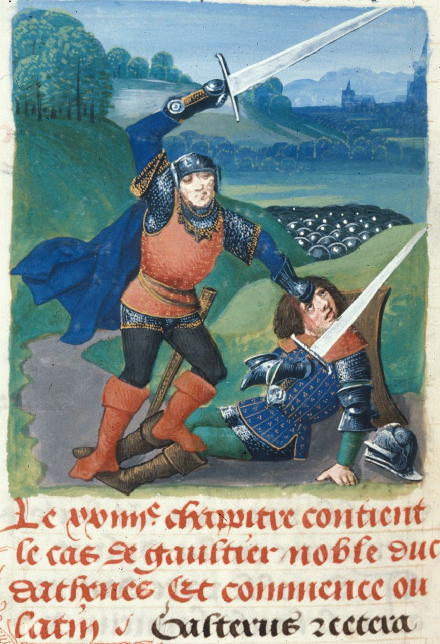 Death of Gautier VI de Brienne, at the battle of Poitiers, Royal 14 E V f. 499v)